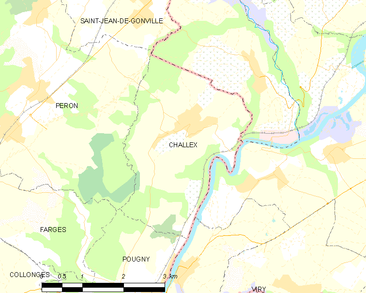 Map of French commune: Challex Map commune FR insee code 01078.png